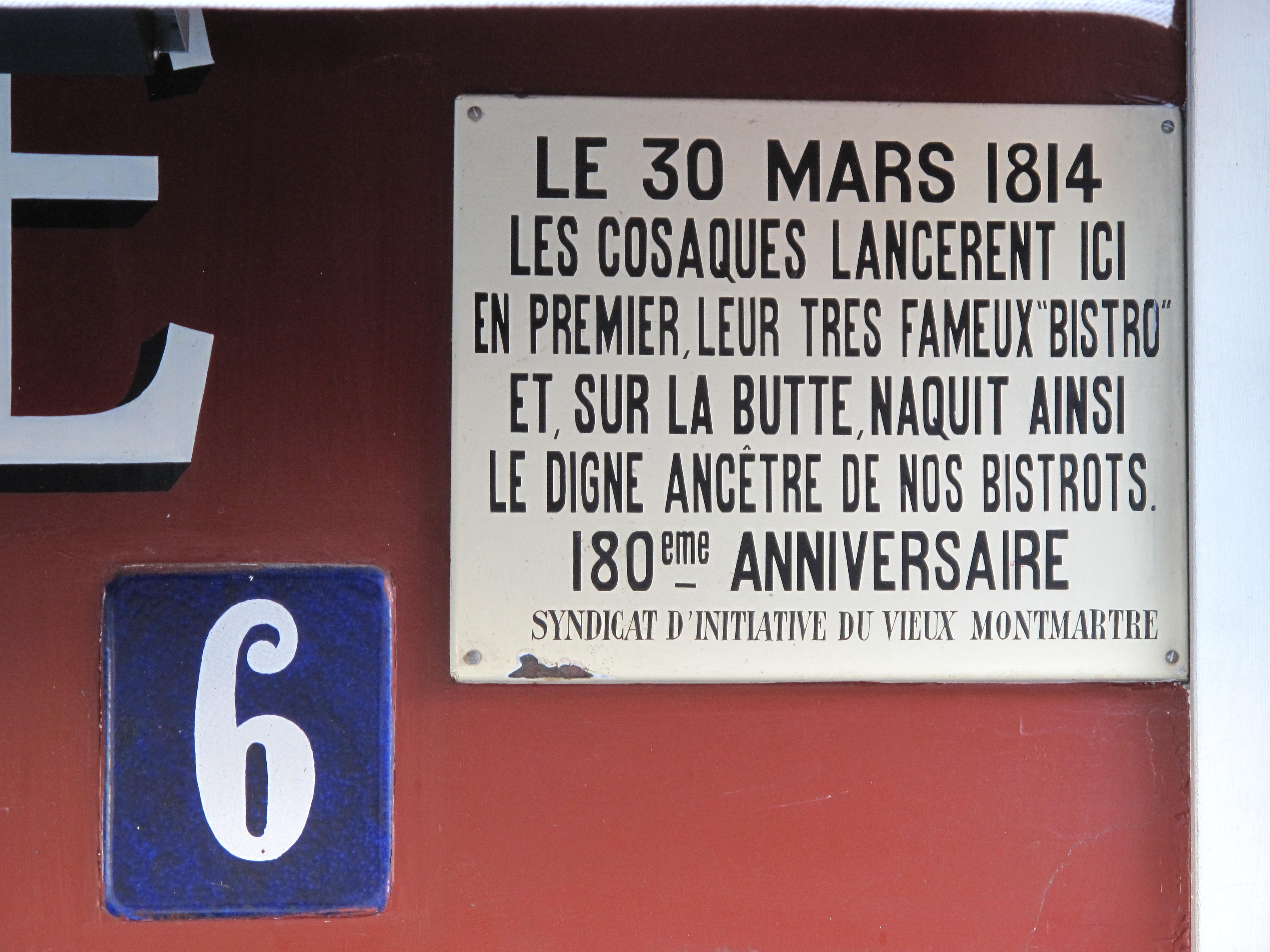 Plaque about the legend of the origine of the word "Bistro" (the legend is false, according the specialists). 6, place du Tertre, Paris, 18th arr.